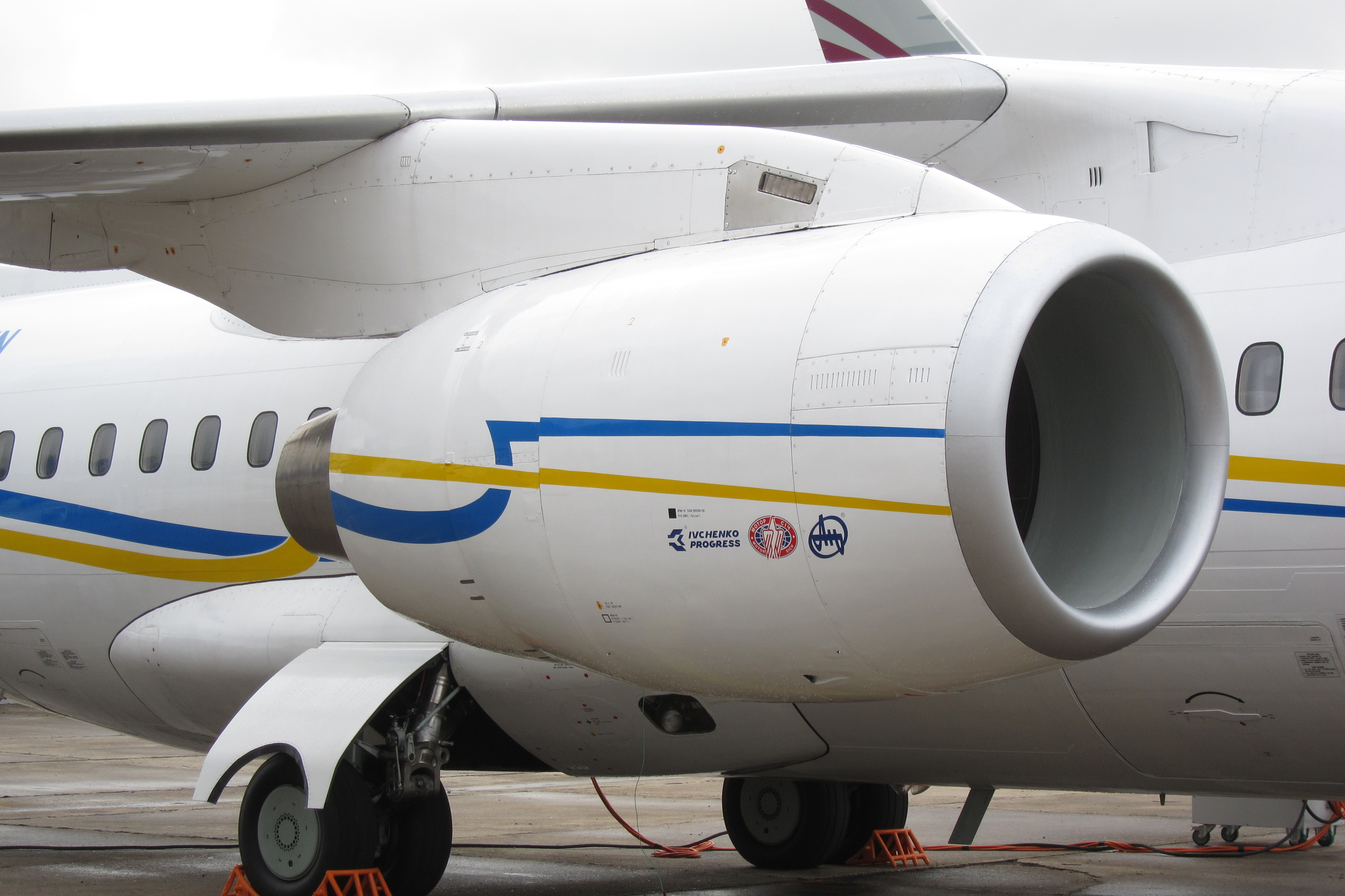 The Progress D-436 turbofan of an Antonov An-158 displayed at the Paris Air Show 2013